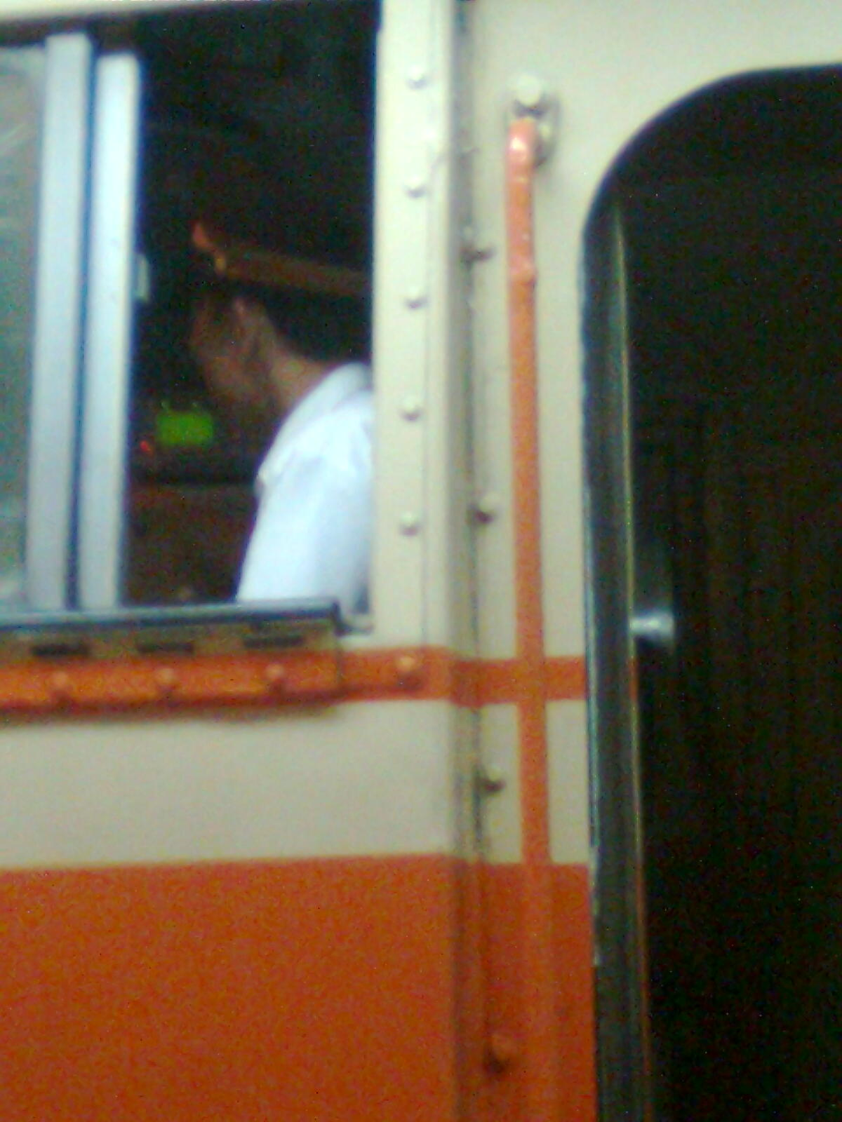 A male driver of Taiwan Railway Administration operating an E200 electric locomotive.